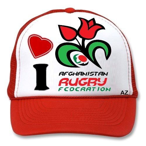 ARF Cap Designed by Asad Ziar